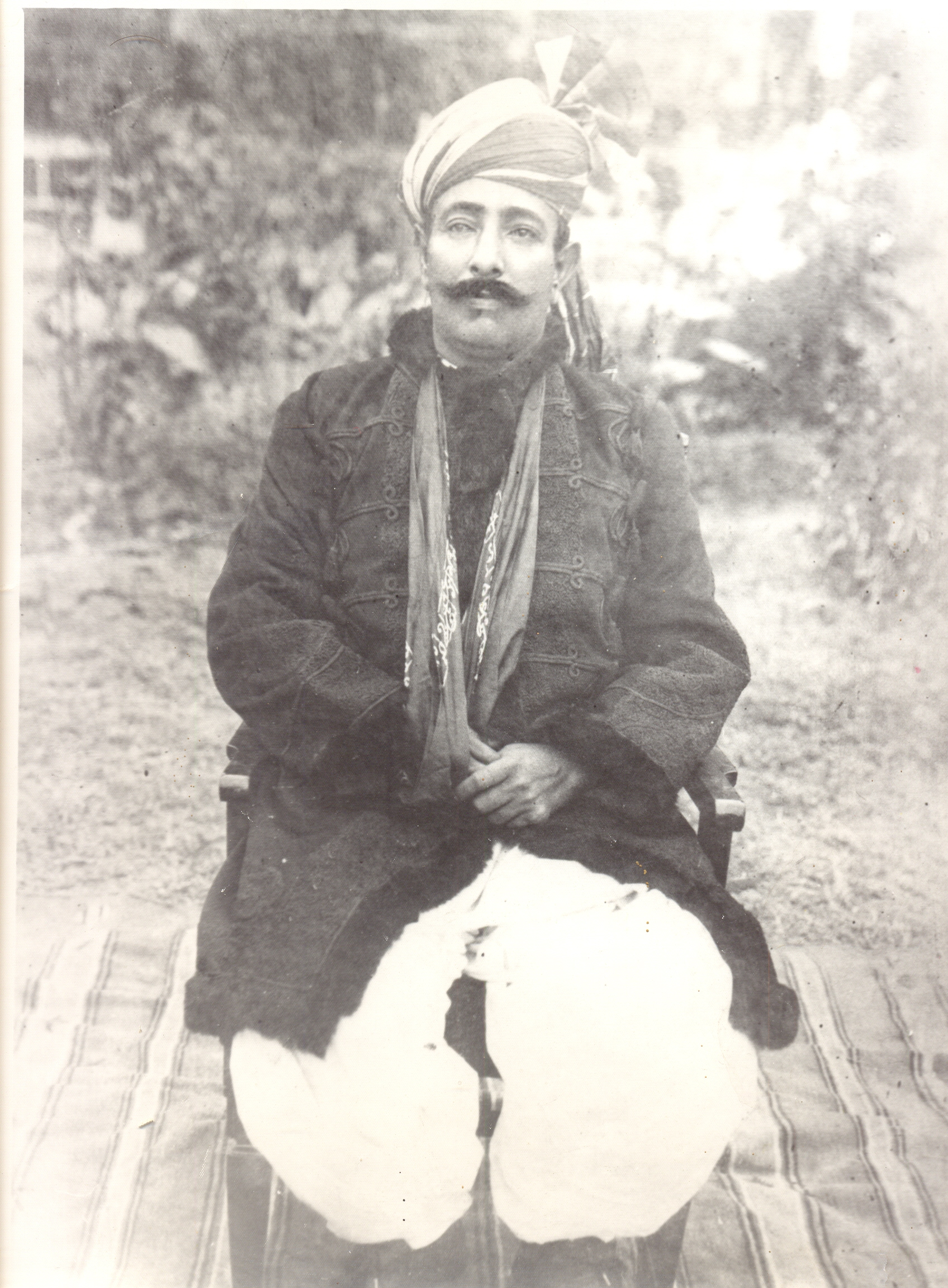 in this picture : Nawab Mohammad Khan Zaman Khan (Nawab Of Amb State).